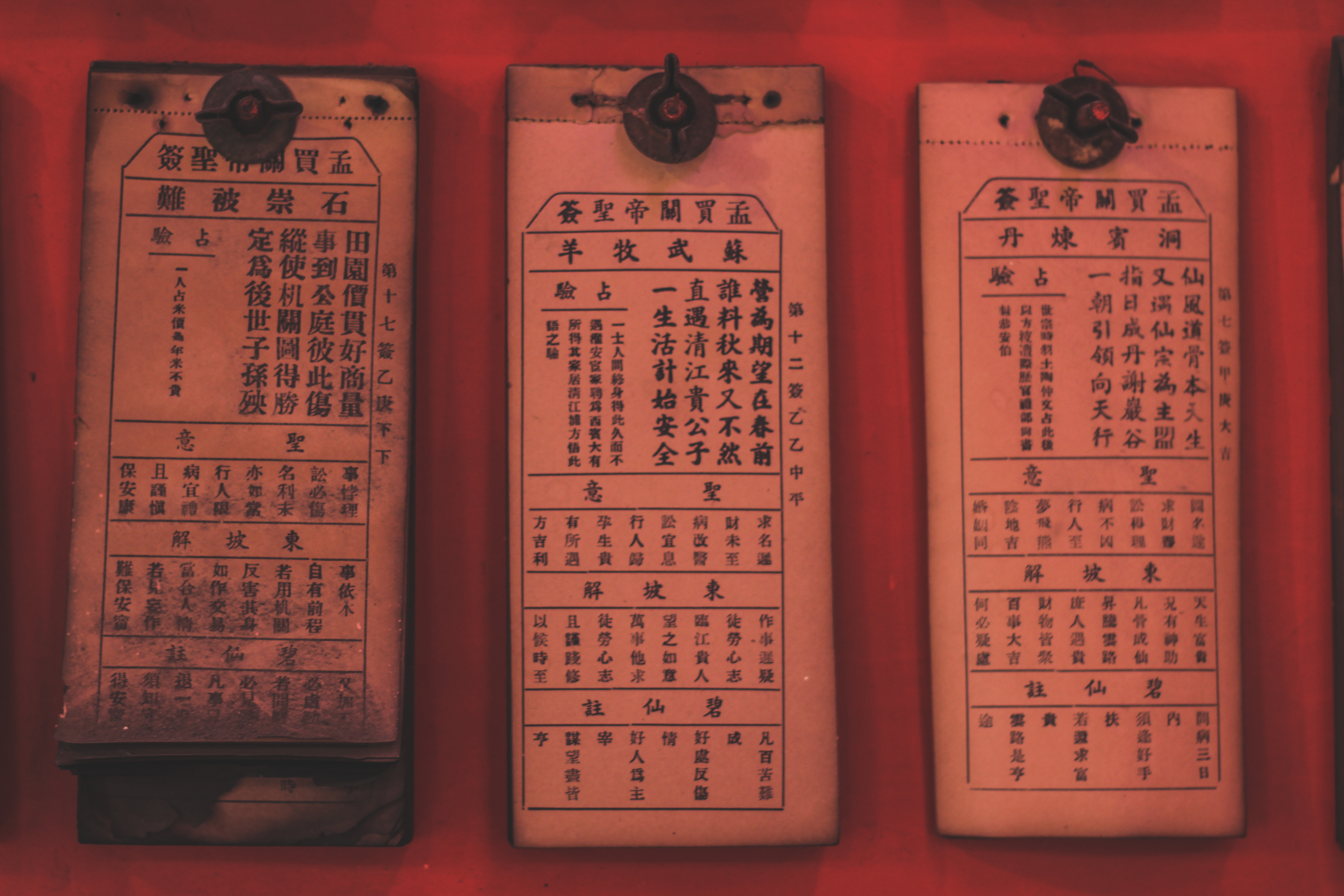 These scriptures can be found in the Chinese temple.